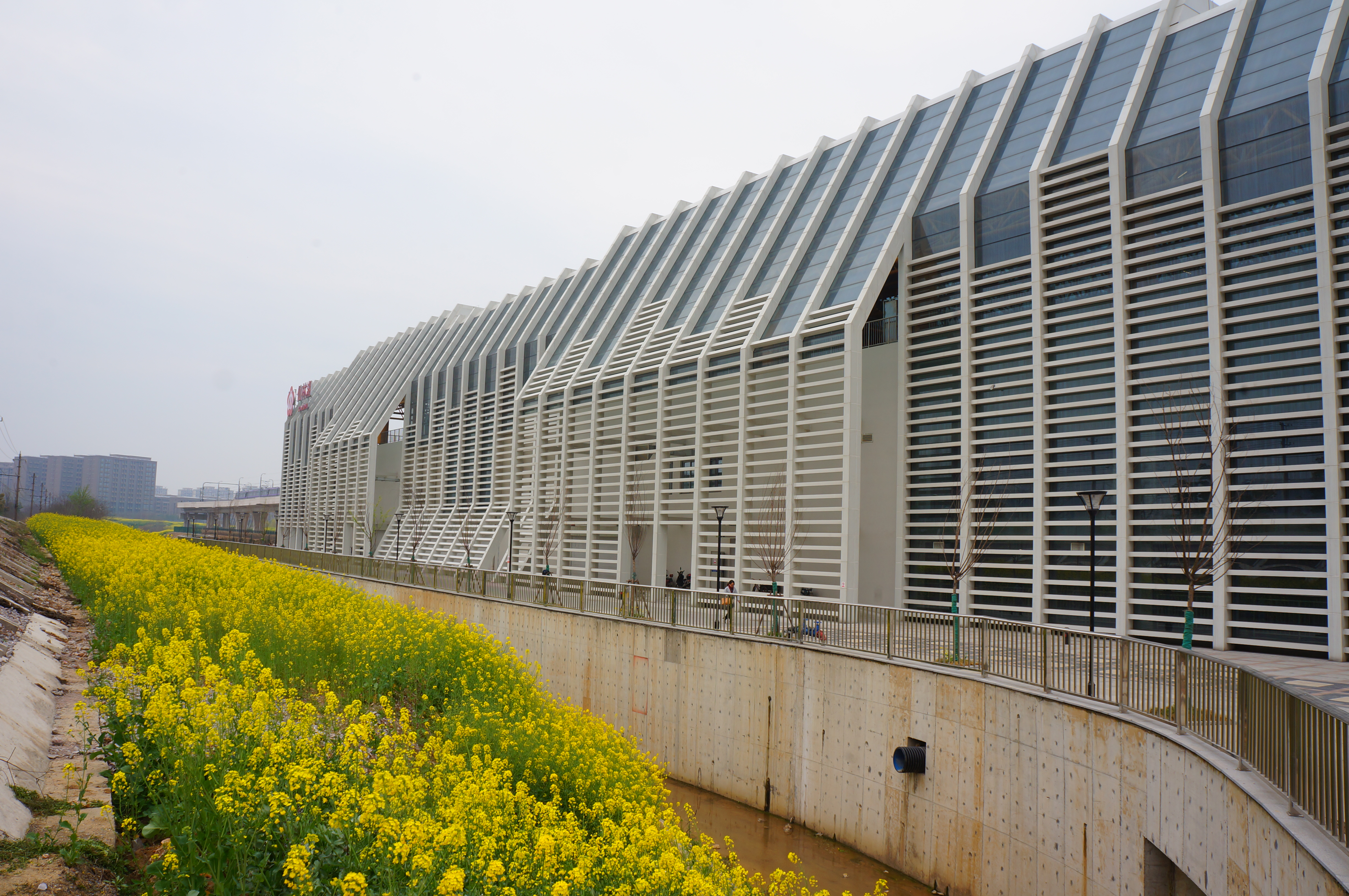 201704 Xianlinhu Station. Taken on the subgrade of Qixiashanbei–Tangshan Narrow-Gauge Railway